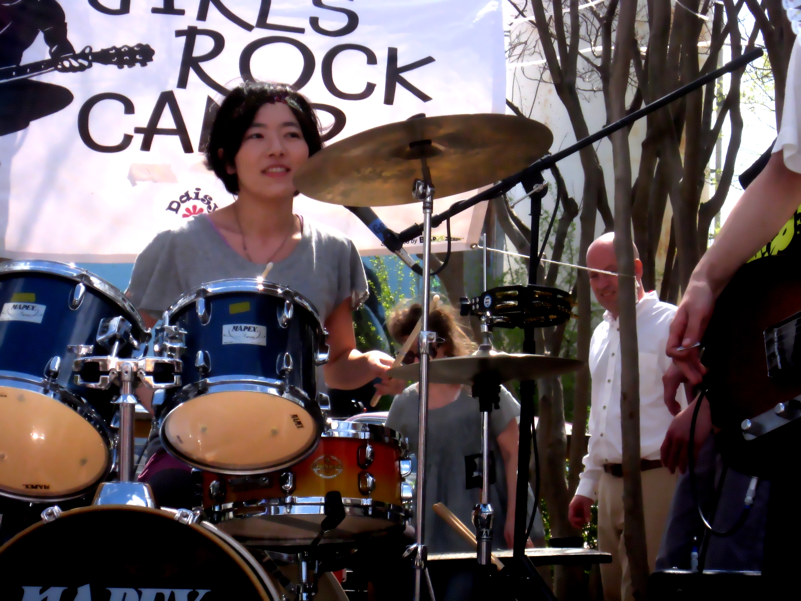 Kumiko Takahashi performing with chatmonchy at the Girls Rock Austin SXSW Day Party in Austin, Texas on March 19, 2010.